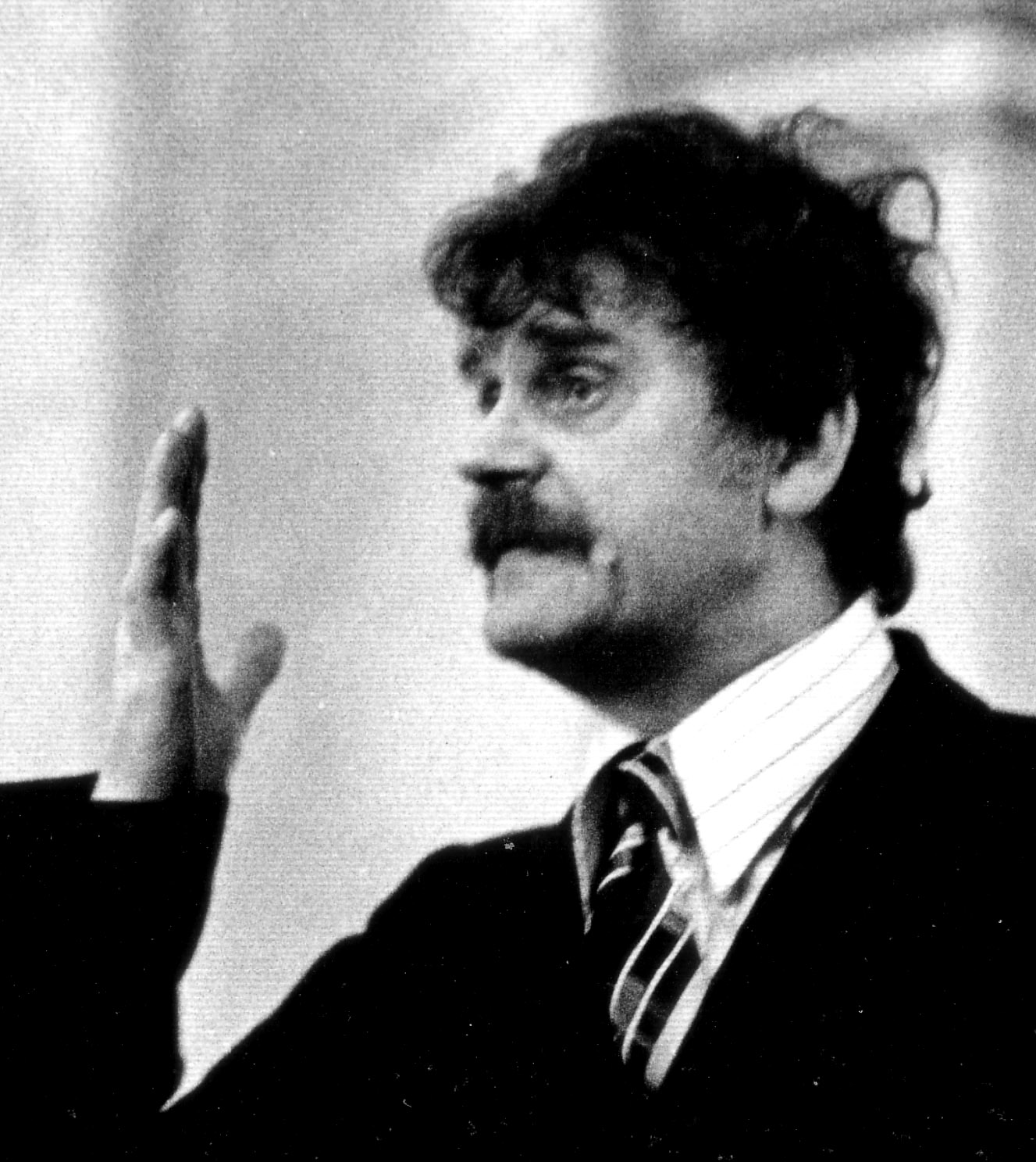 Austrian poet H.C. Artmann on 1974-11-21, during his acceptance speech when getting Grand Austrian State Prize for literature. The poet however never cared very much about such things... (Nikon 85mm lens; available light [no flash], TRI-X film, Microdol).